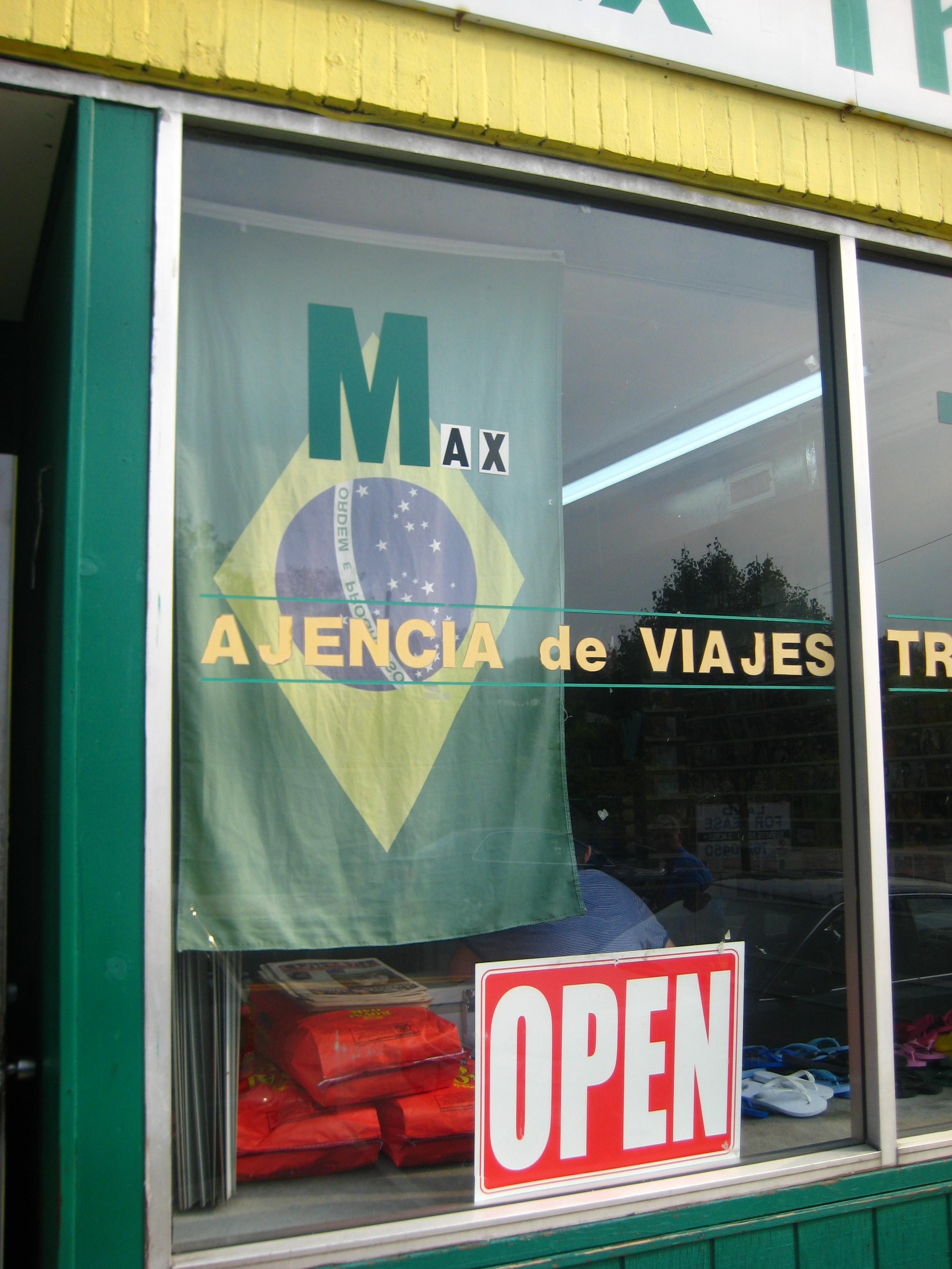 This travel agency in South Norwood, Massachusetts employs Portuguese-speaking agents and displays the flag of Brazil in its store window. October 2008 photo by John Stephen Dwyer